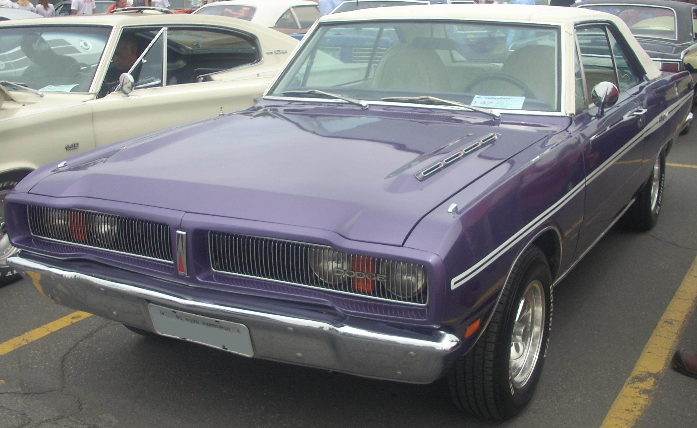 1976 Brazilian Dodge Dart with fancy grill and charger symbol photographed in Salaberry De Valleyfield, Quebec, Canada at Rassemblement Mopar Valleyfield 2010.